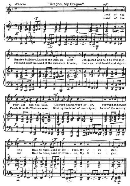 Oregon, My Oregon is the official state song of the U.S. state of Oregon, adopted as such in 1927.